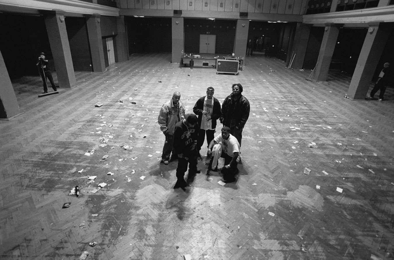 rap group Gravediggaz in Germany 1998